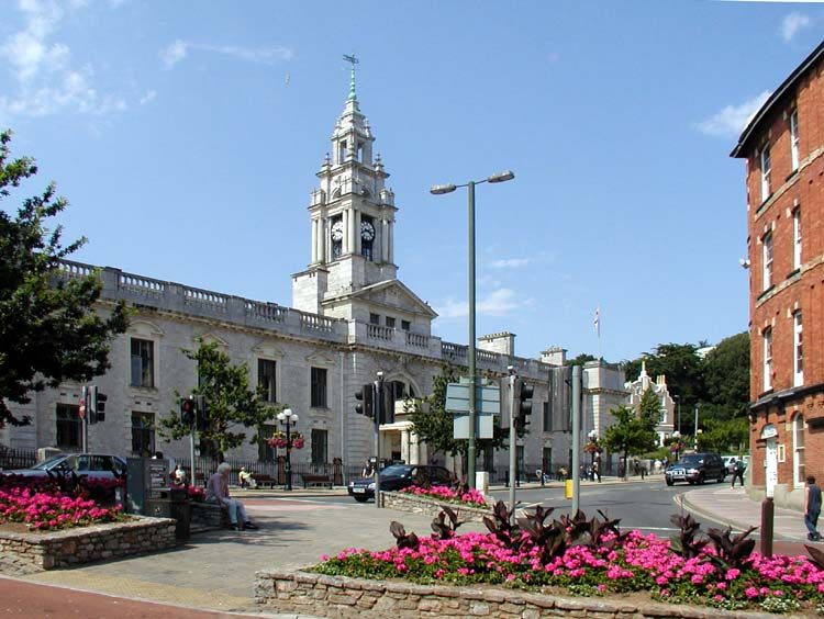 Torquay Town Hall, England. Taken by Adrian Pingstone in July 2003 and released to the public domain.